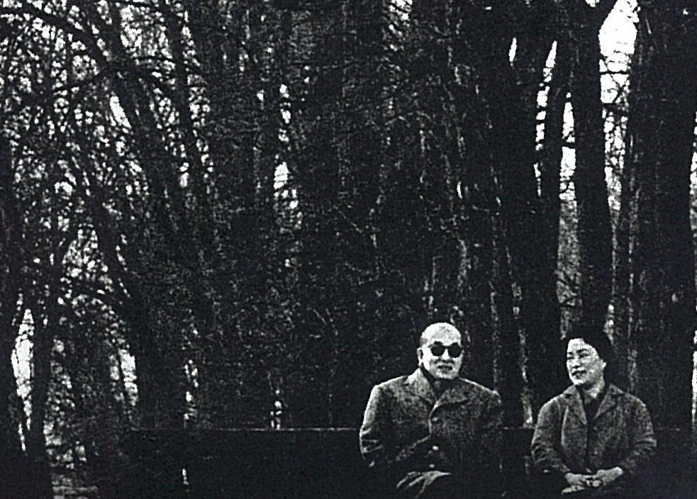 (Left, male) Yozo Hamaguchi is a Japanese woodblock artist. (Right, female) Keiko Minami is a Japanese female woodblock artist. They producted copperplate prints. They were married couple.